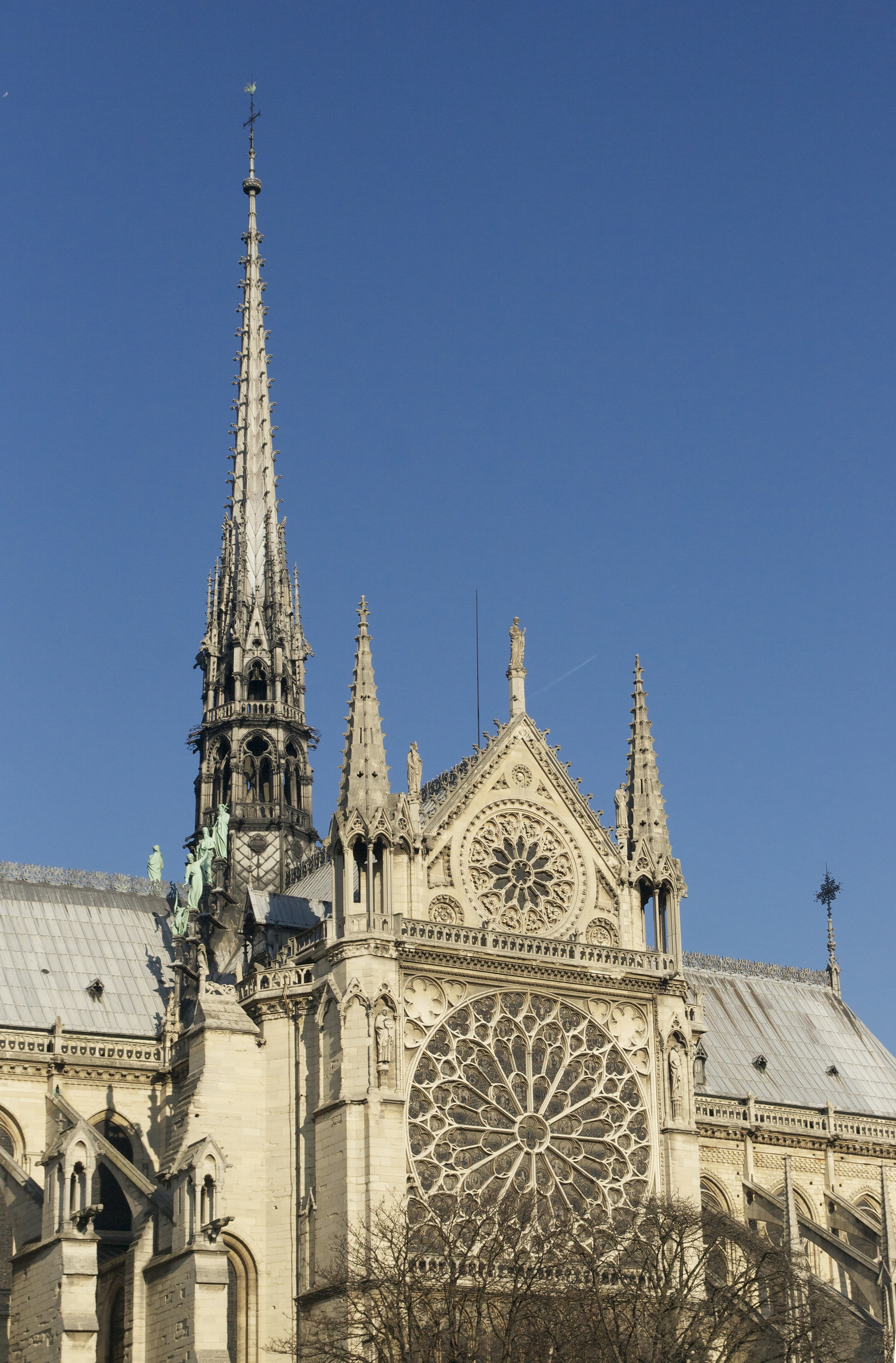 The spire and the rose of the southern transept of cathedral Notre-Dame de Paris.